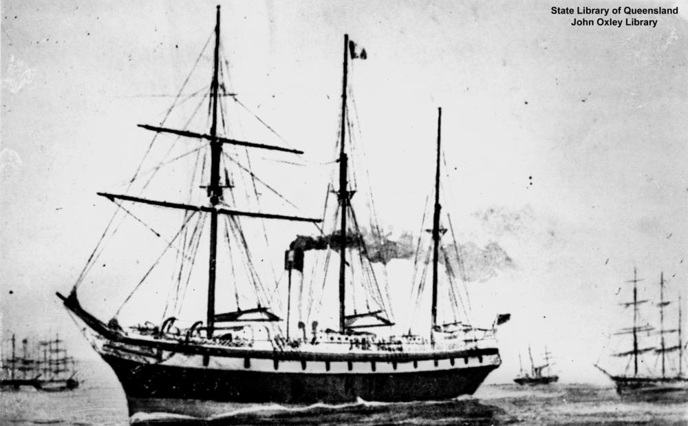 SS Alhambra. The 'Alhambra', 642 tons. Built 1855 for P+O Company. Sold to McMeckan, Blackwood and Co. and for many years traded between Melbourne and New Zealand. Sold and converted into a collier and foundered off Port Stephens in July 1888. (Description supplied with photograph)